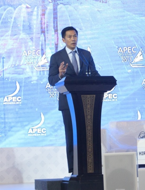 Wishnu Wardhana addressing keynote speech at the Opening of APEC CEO Summit 2013